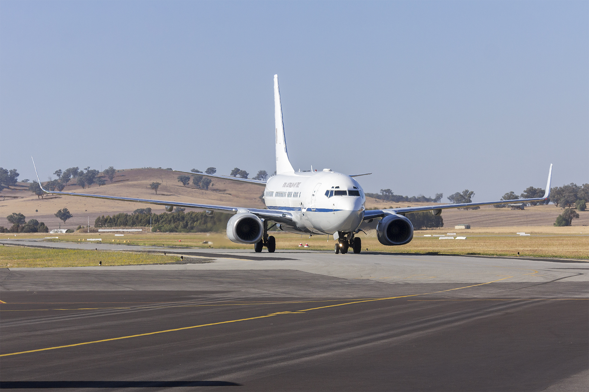 Royal Australian Air Force (A36-002) Boeing 737-7DT (BBJ) taxiing at Wagga Wagga Airport.